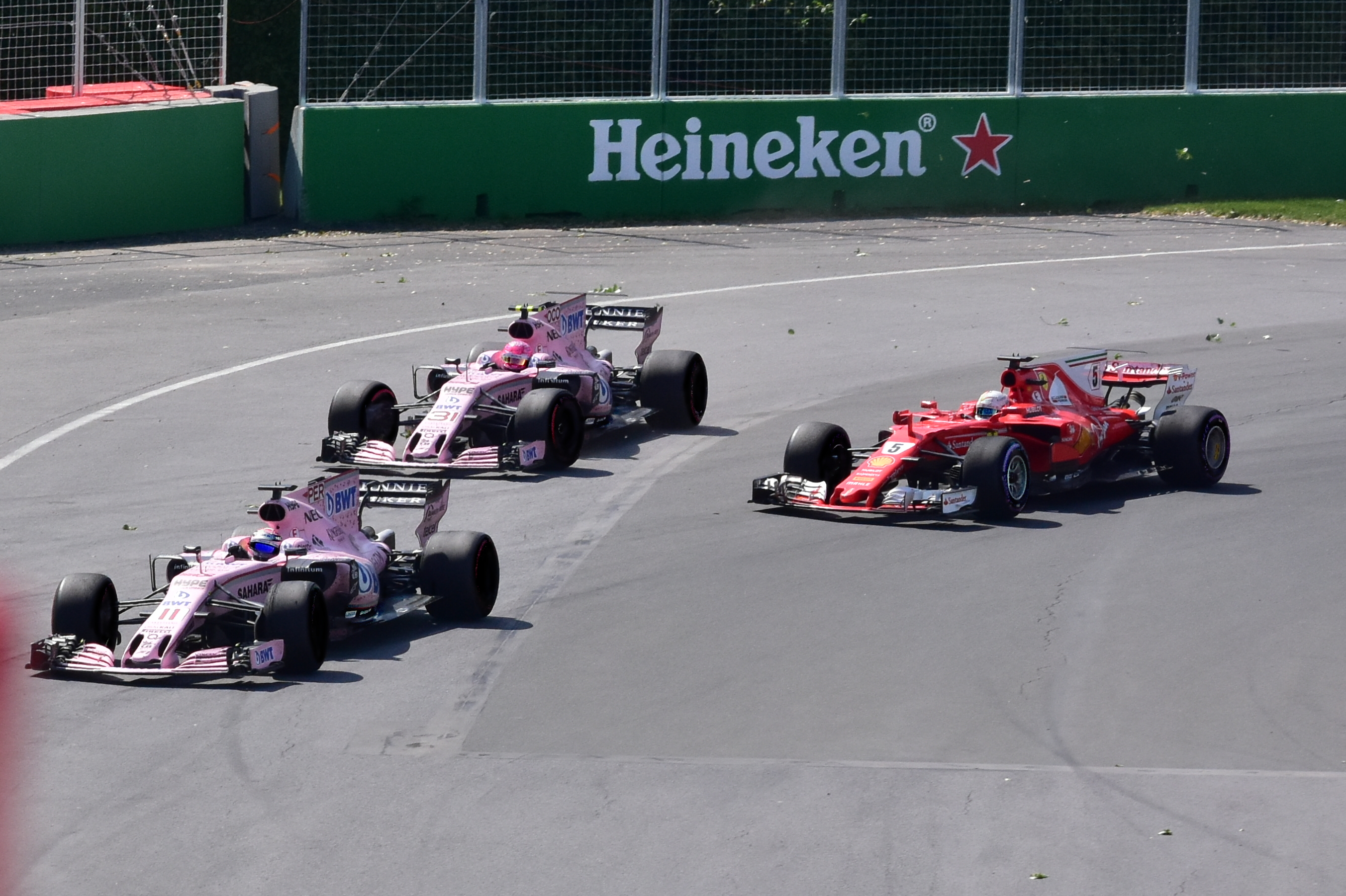 By not ordering Ocon to pass Perez, Force India would lose 4th place. It is clear that Perez tires are completely gone (front left) and he could not go as fast as Ocon.